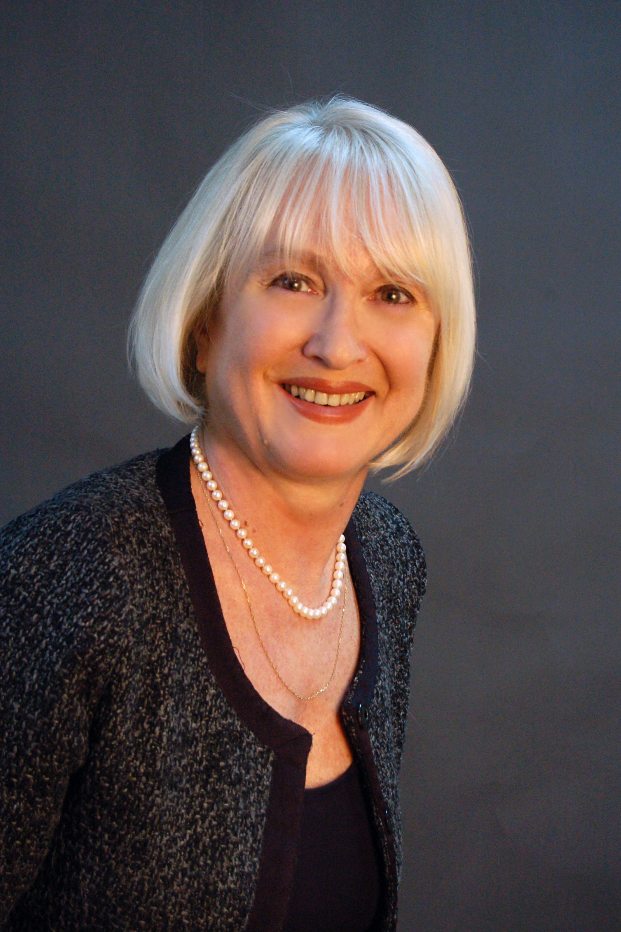 Gyöngy Kovács Kiss (19ö60) Hungarian Editor, Historian